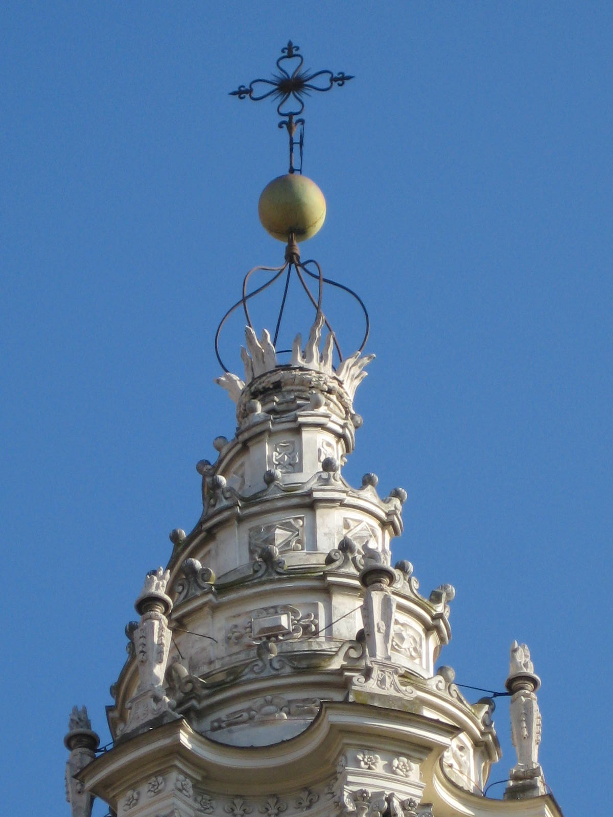 Dome of the church Sant'Ivo (Rome)